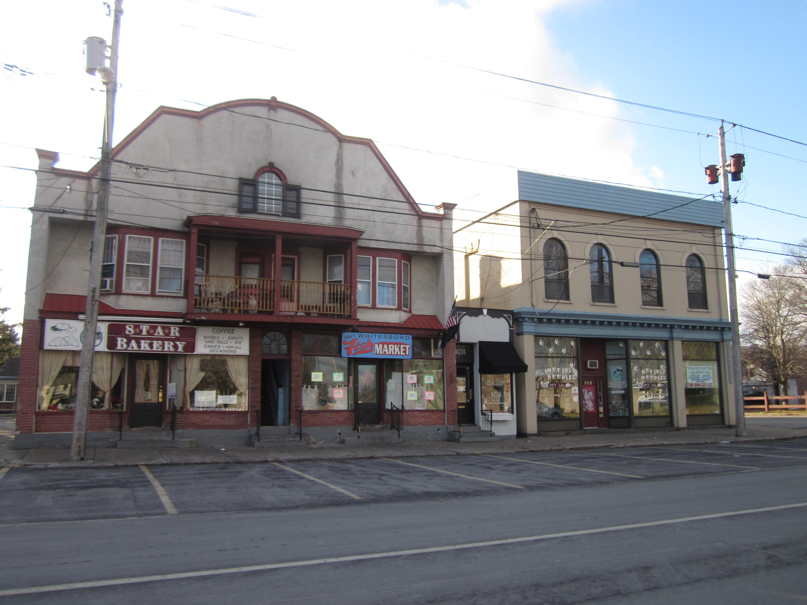 Whitesboro, New York. Commercial buildings housing bakery cafe, fish market, and pet shop.